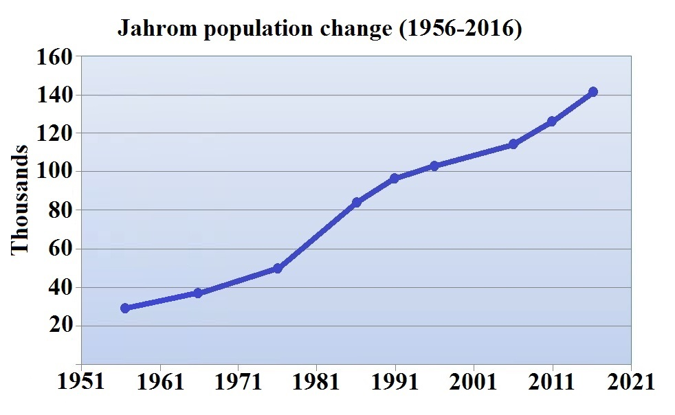 Jahrom population change reference